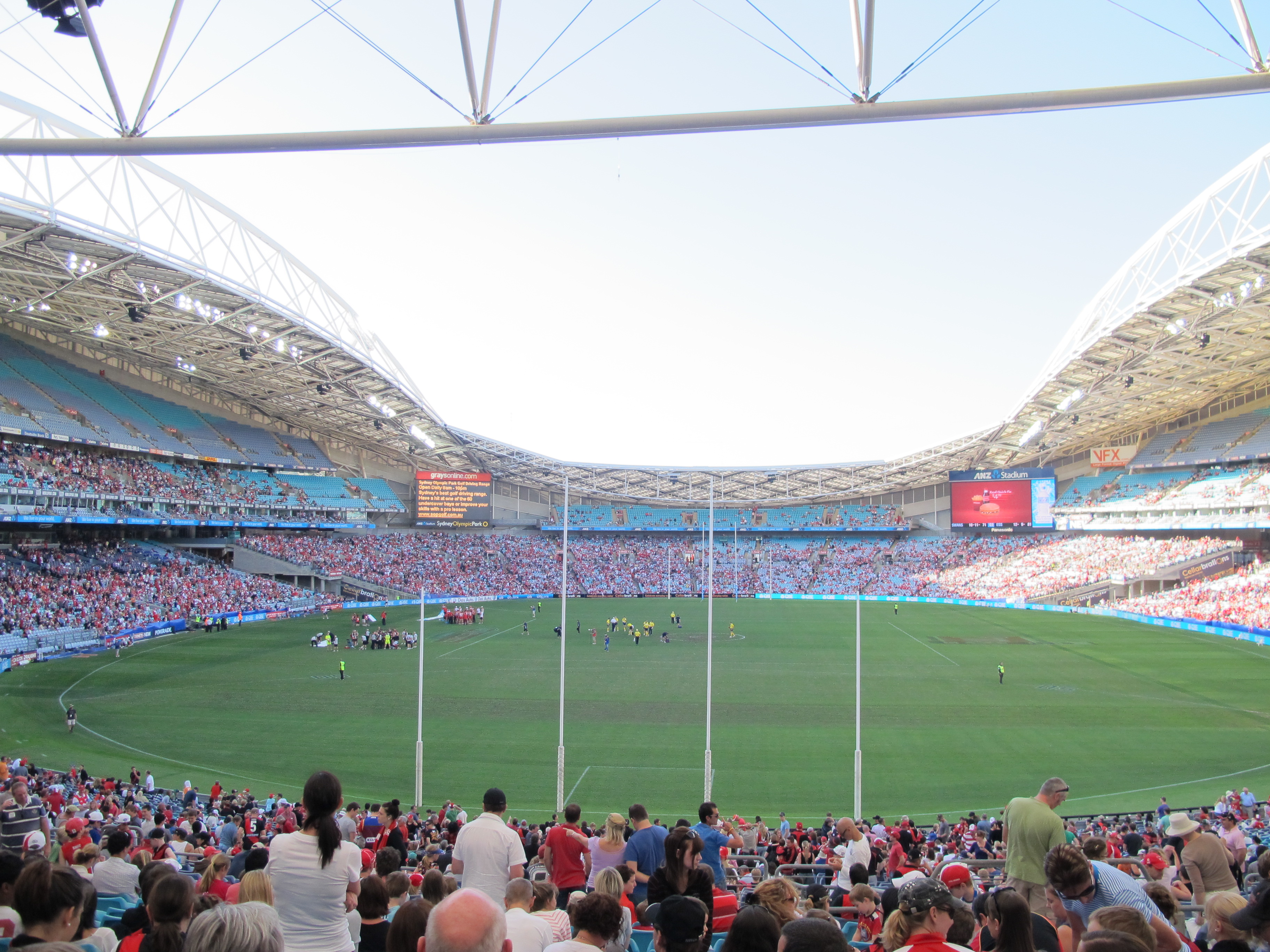 Our view, great position, no sun and with the Essendon crowd